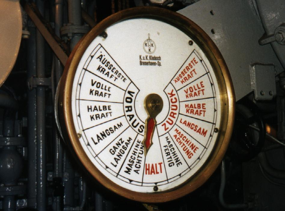 Engine-order telegraph, engine room